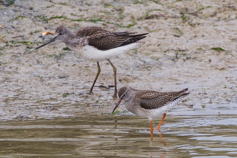 Common Greenshank (Tringa nebularia) and Common Redshank (Tringa totanus) at Cuckmere Haven, Sussex, England